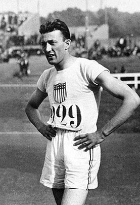 Olympic Games, Paris, France, Men's 200 Metres, Hill